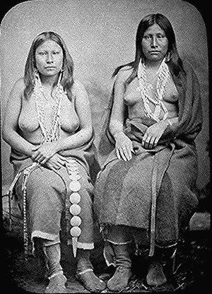 Two Wichita girls in summer dress.